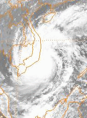 National Climatic Data Center's GIBBS satellite archive ftp://eclipse.ncdc.noaa.gov/pub/isccp/b1/.D2790P/images/1988/311/Img-1988-11-06-06-GMS-3-VS.jpg